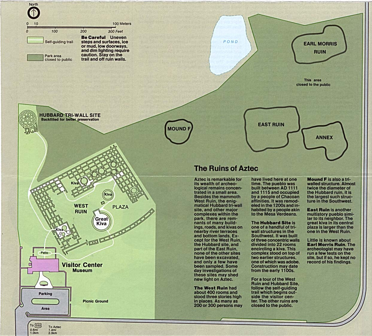 Aztec Ruins National Monument site map.